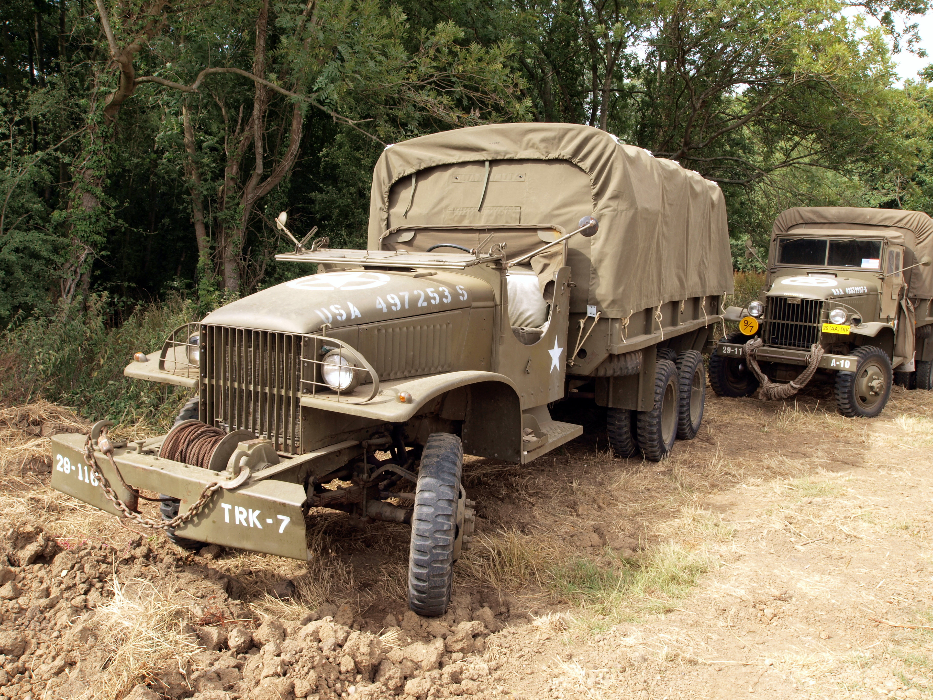 GMC CCKW-353 Truck, 2.5-ton, 6x6, Cargo w-Winch, USA 497253 S